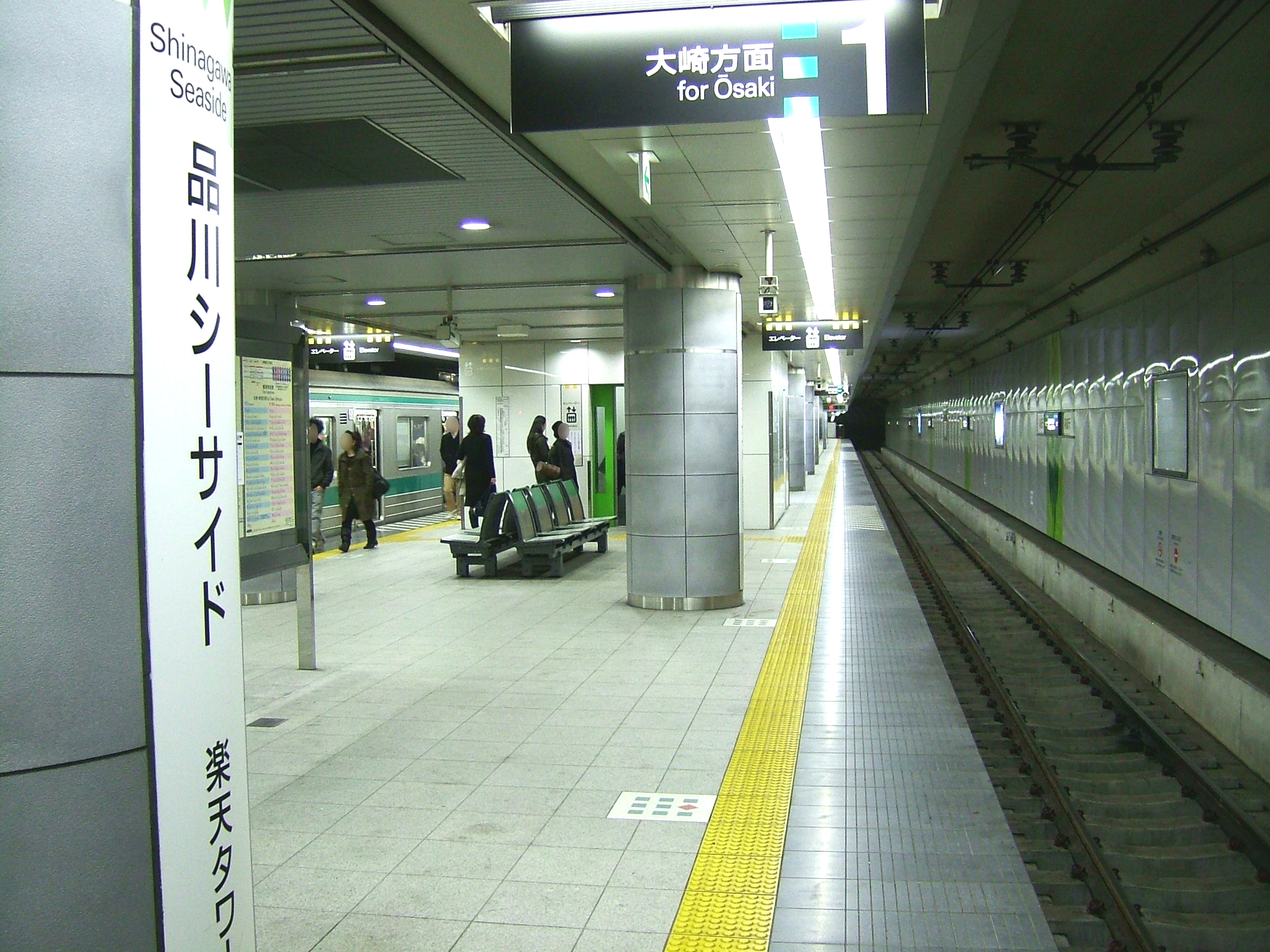 The platform at Shinagawa Seaside Station on the TWR Rinkai Line